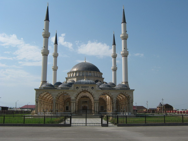 The mosque is located in bighead-Yurt